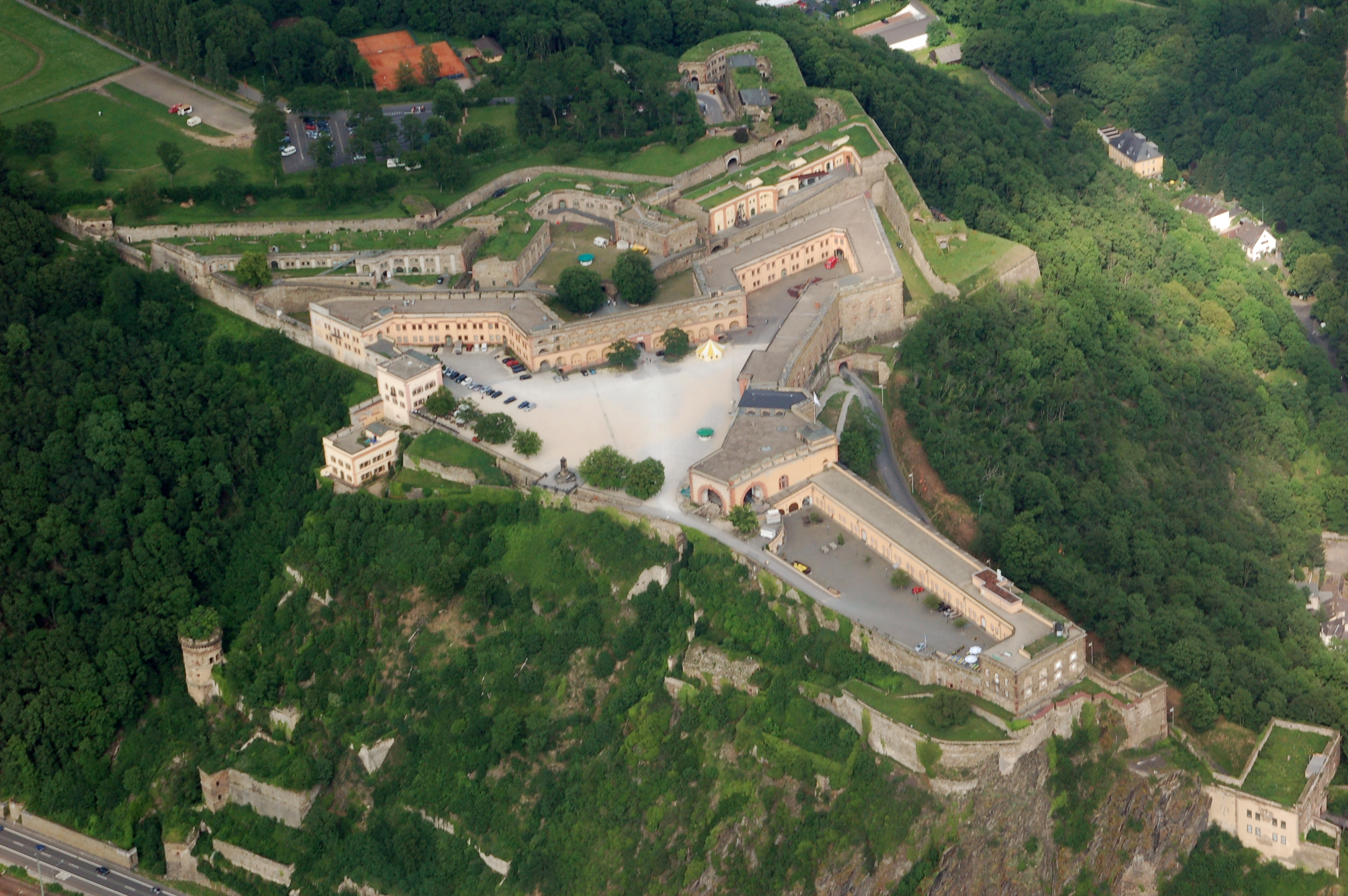 Aerial photograph of the Festung Ehrenbreitstein, Koblenz, Rhineland-Palatinate, Germany